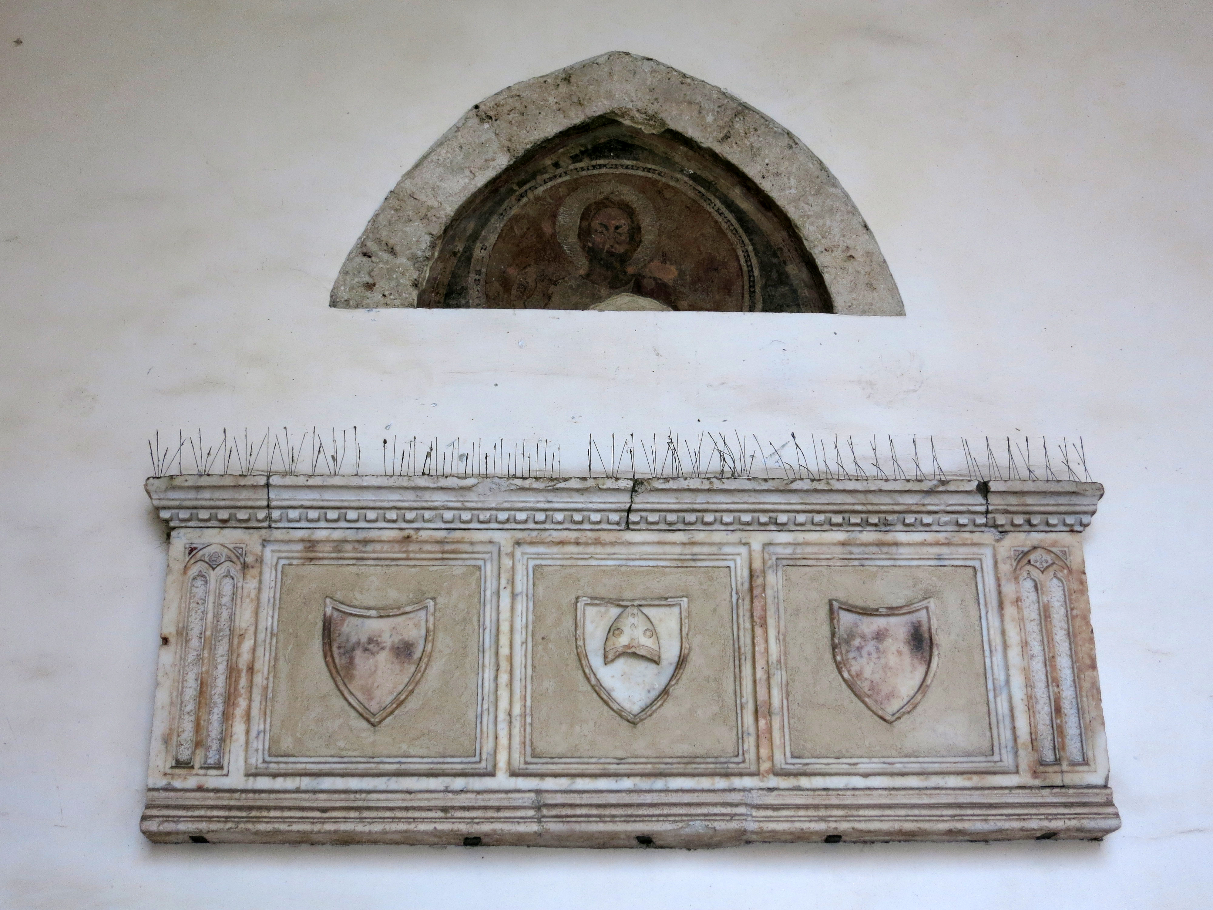 St. Mary Cathedral - Rieti, Lazio, Italy